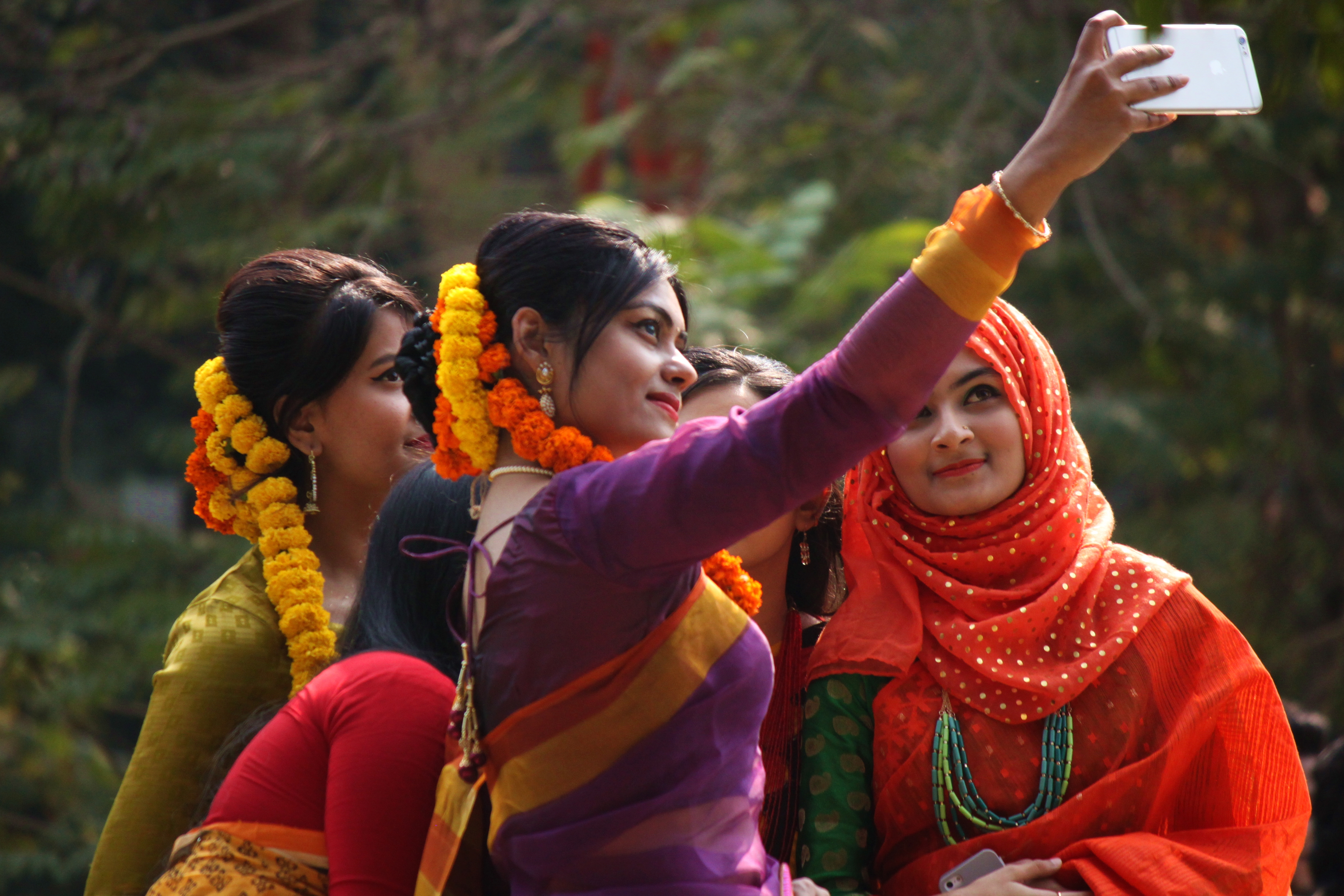 Pohela Falgun (Bengali: পহেলা ফাল্গুন Pôhela Falgun or পয়লা ফাল্গুন Pôela Falgun), first day of Spring of Bengali month Falgun, of the Bengali calendar, celebrated in Bangladesh and West Bengal and in the other Indian states, including Assam, Tripura, Jharkhand and Orrisa. The first of Falgun usually falls on 13 February of the Gregorian Calendar. This day is marked with colourful celebration and traditionally, women wear yellow and red saris to celebrate this day.